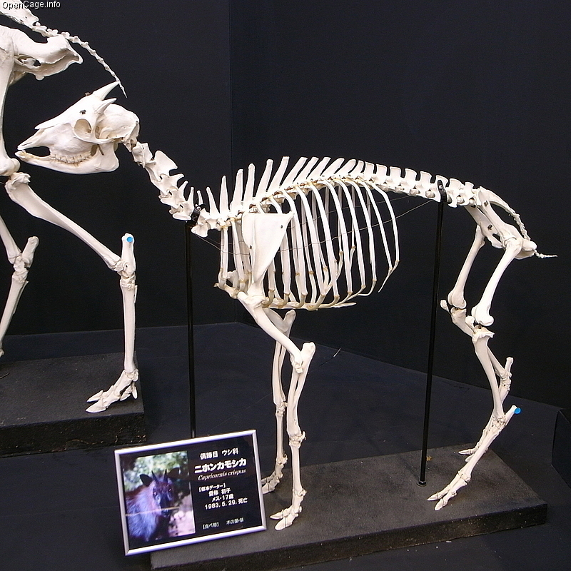 A skeleton of the Japanese serow on display at the Kobe Oji Zoo in Japan.